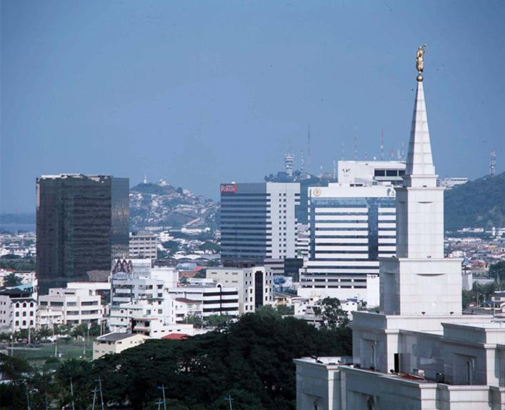 Politic Division of the ecuadorian Province of Guayas